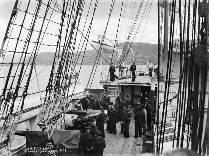 HMS Calliope, photographed in Port Chalmers harbour by David Alexander De Maus (1847–1925). 2 broadside 5-inch guns on Vavasseur recoil mountings are seen at left; in the left background is a 6-inch gun with shield.